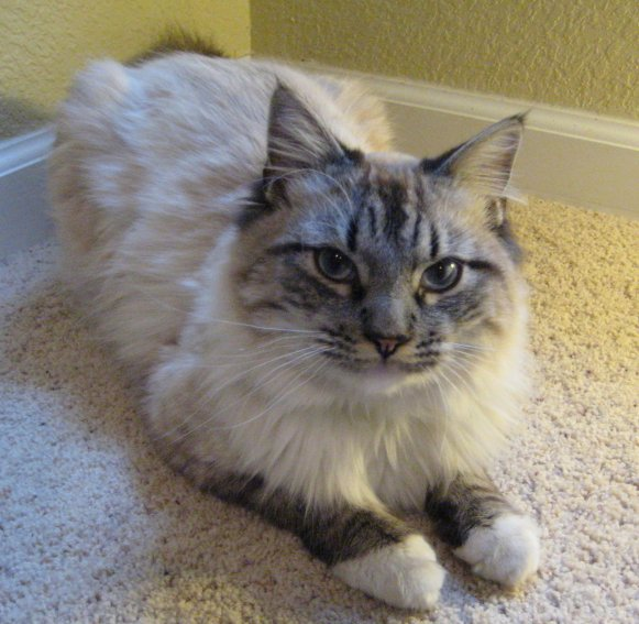 A Blue Lynx Point Mitted Ragdoll male cat.